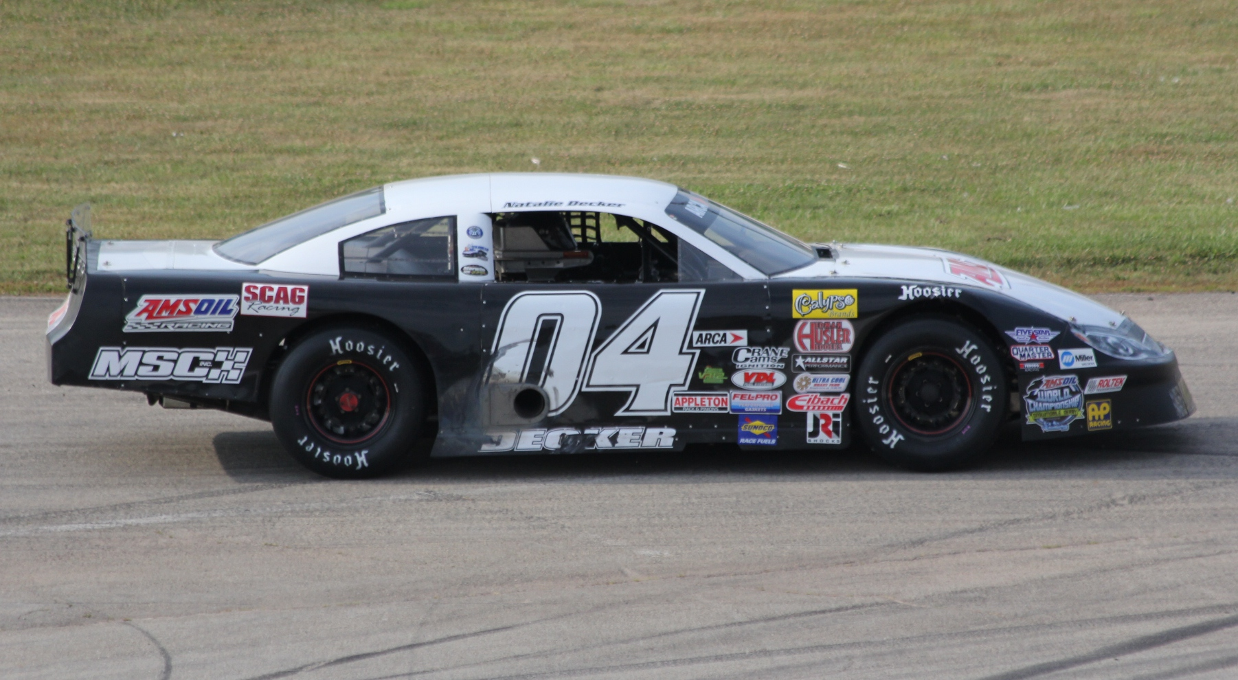 The 2014 ARCA Midwest Tour car for Natalie Decker at Wisconsin International Raceway.